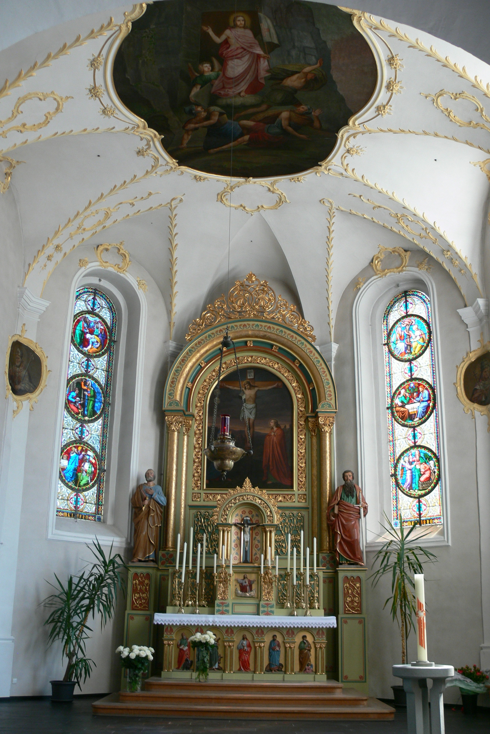 Andelsbuch ( Vorarlberg ). Saint Peter and Paul parish church: Prebytery.